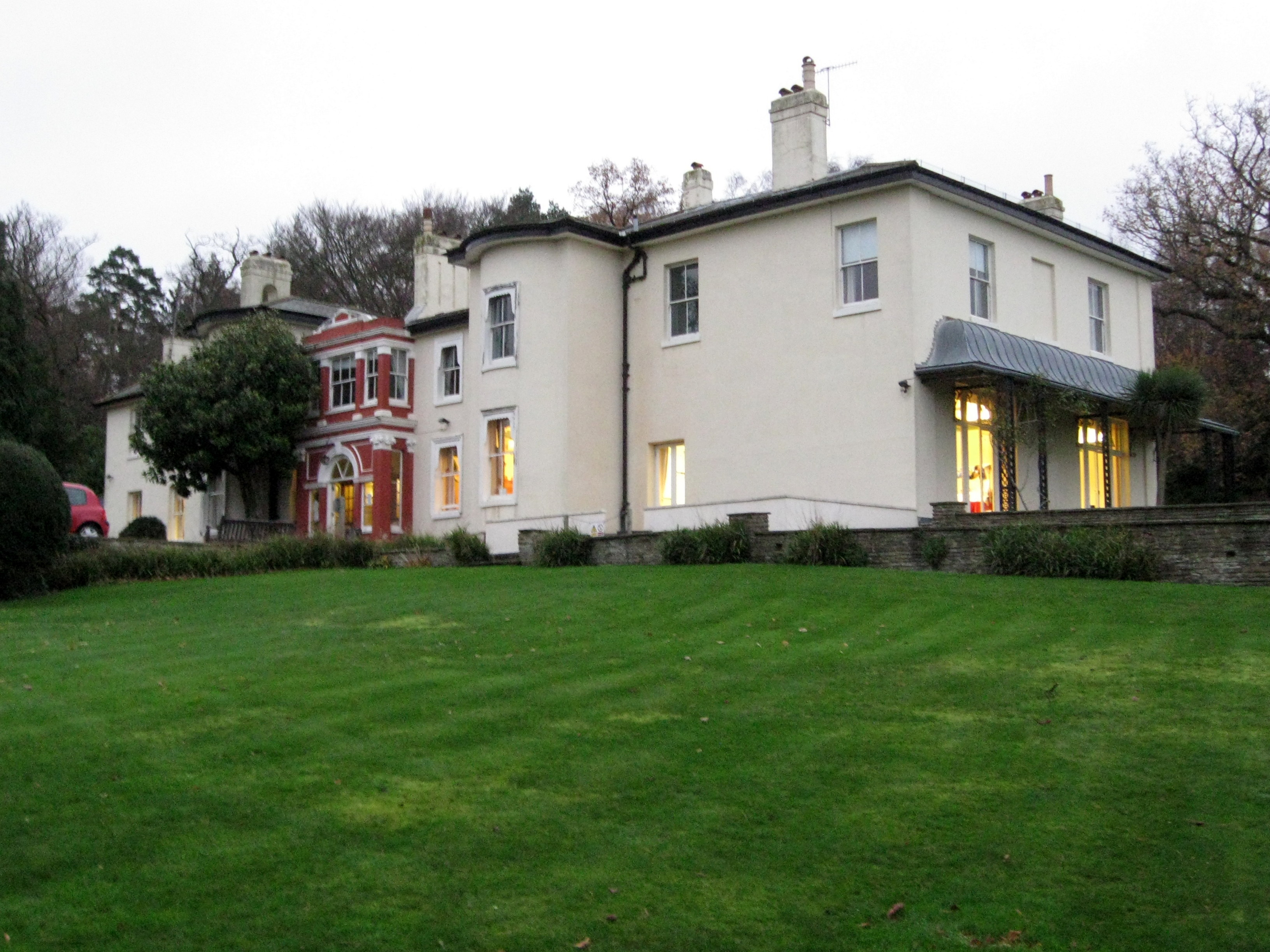 Heathfield House, Croydon, from the grounds, in December 2015